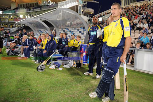 Caribbean T20